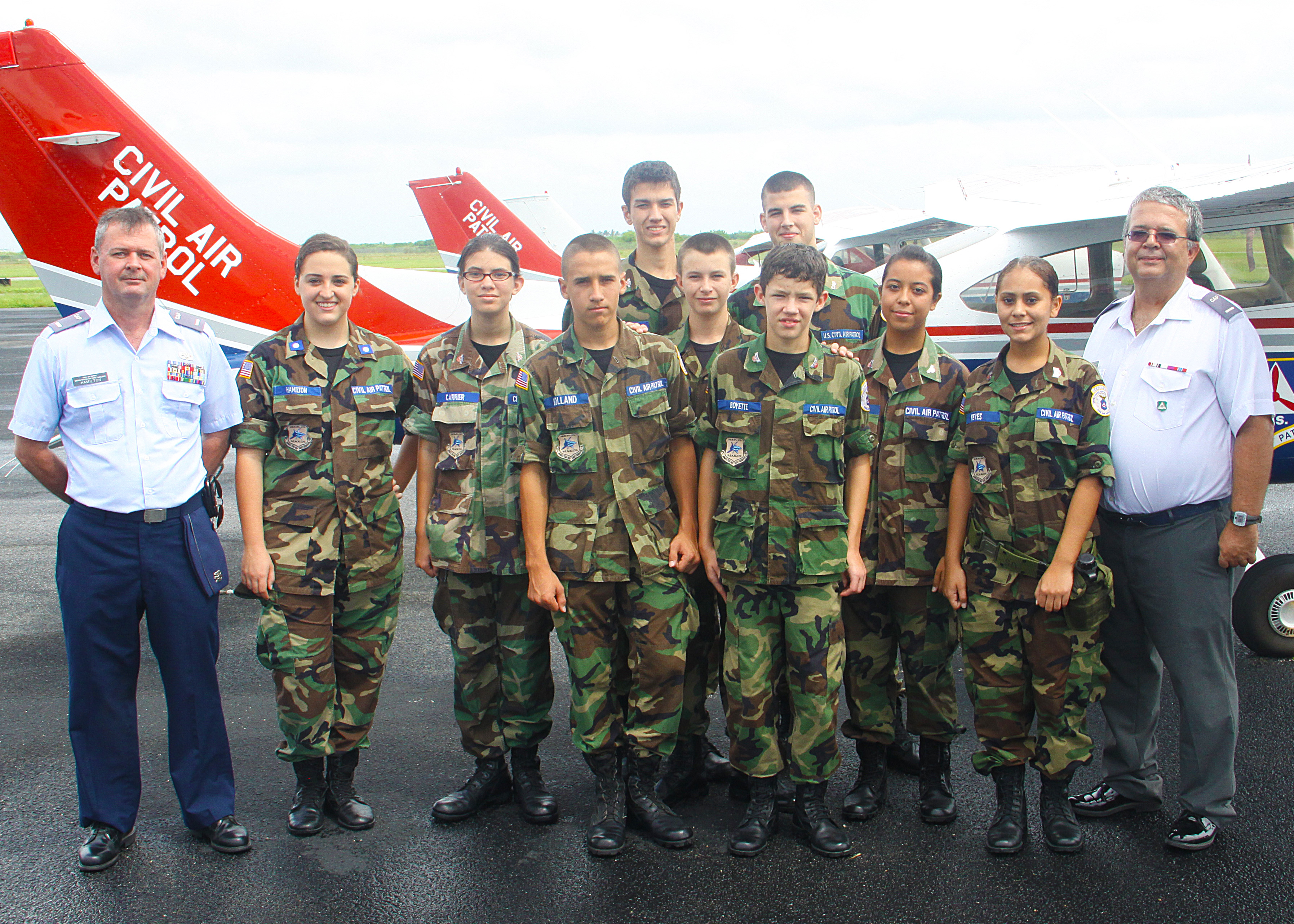 The 279th Civil Air Patrol during a Young Eagles Flight event at Homestead General Aviation Airport; Sep. 25.The 279th C.A.P was in attendance to help out. Junior members of the unit were instructed on crowd control and aircraft marshaling. The 279th C.A.P. is based at Homestead Air Reserve Base. The C.A.P is the civilian auxiliary to the U.S. Air Force. (U.S. Air Force photo/ Ian Carrier)